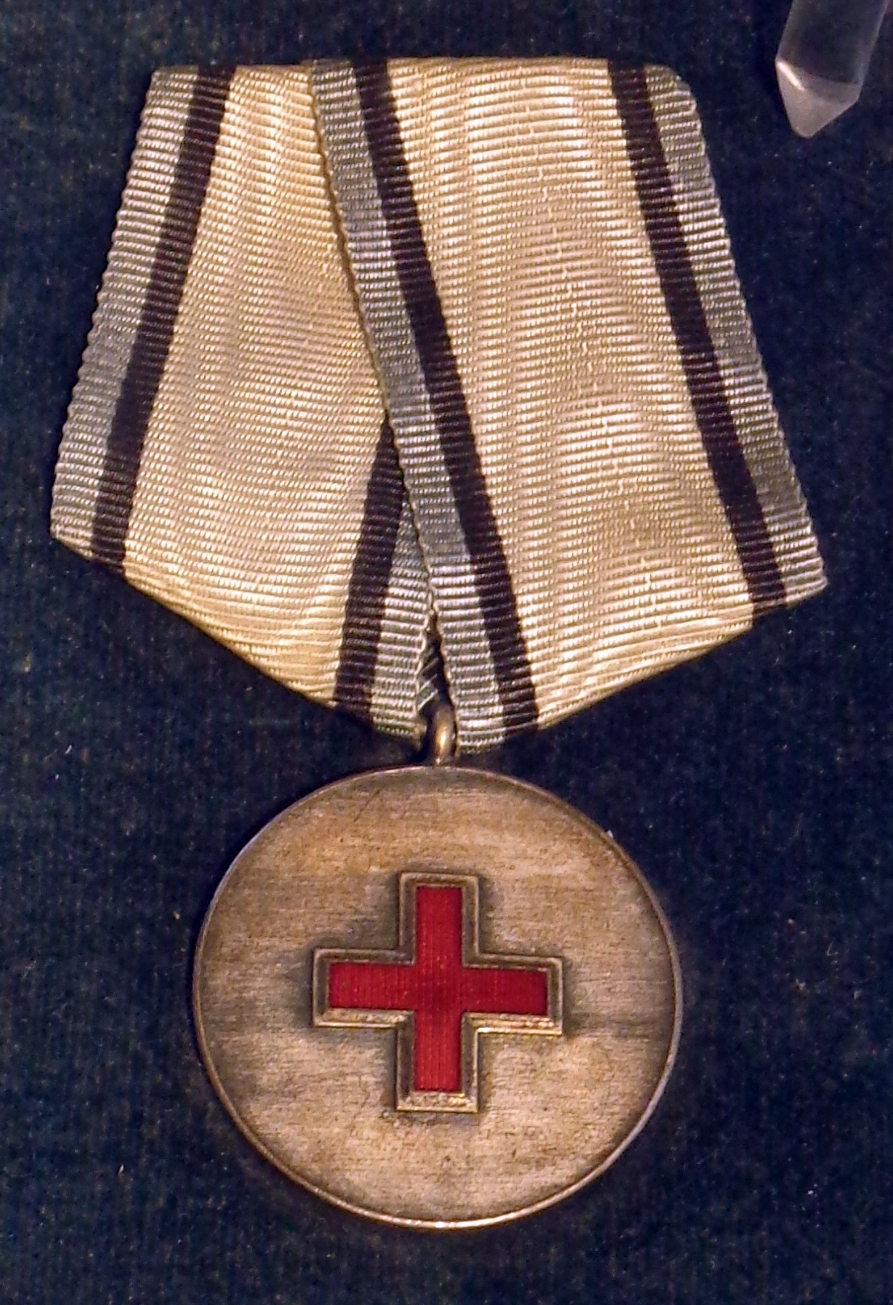 Commemorative decoration of the Estonian Red Cross, 1921-1926. Estonia. The exhibition of the Tallinn Museum of Orders of Knighthood, Estonia.